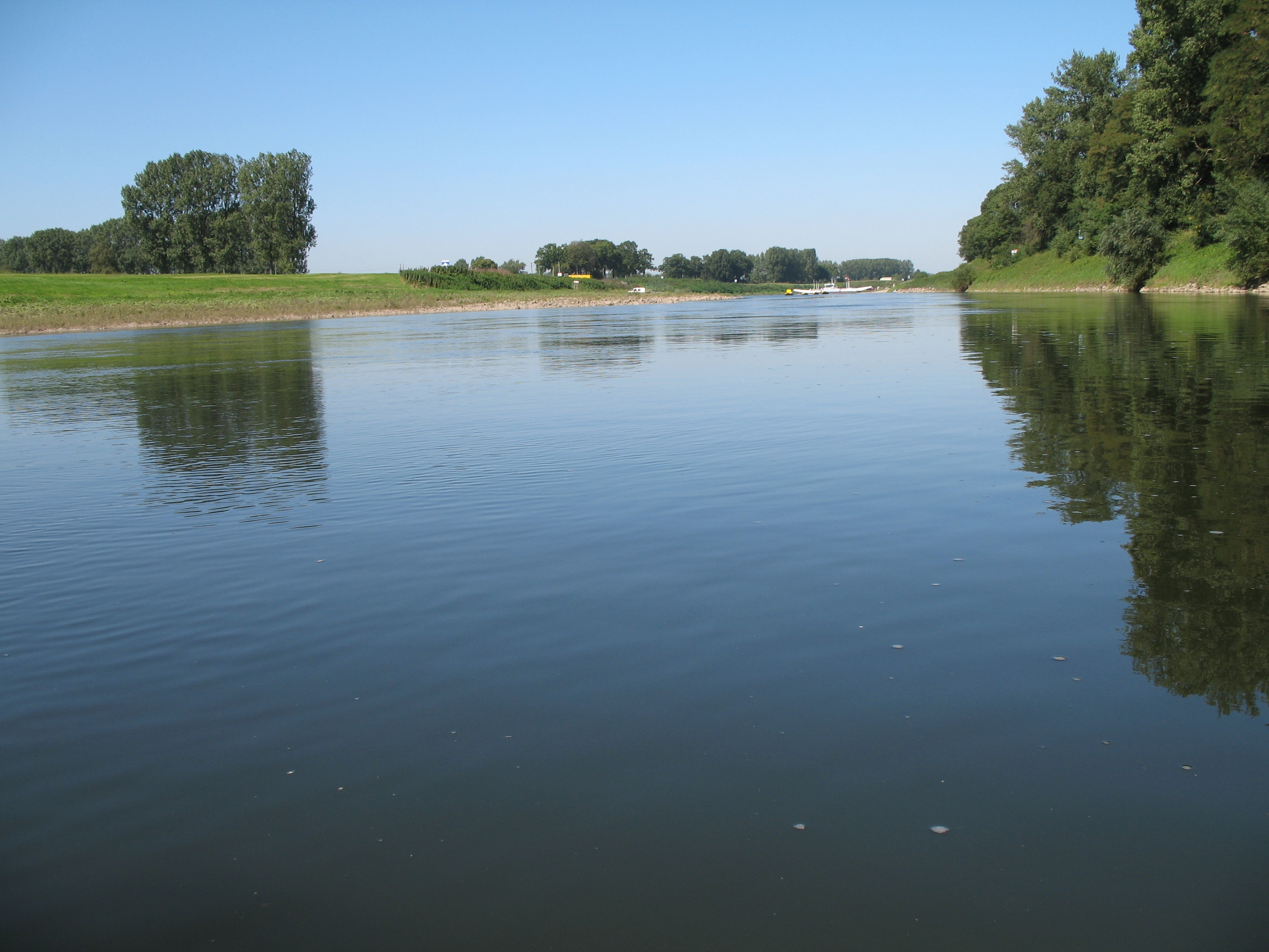 The Meuse River and the ferry at Meeswijk-Berg